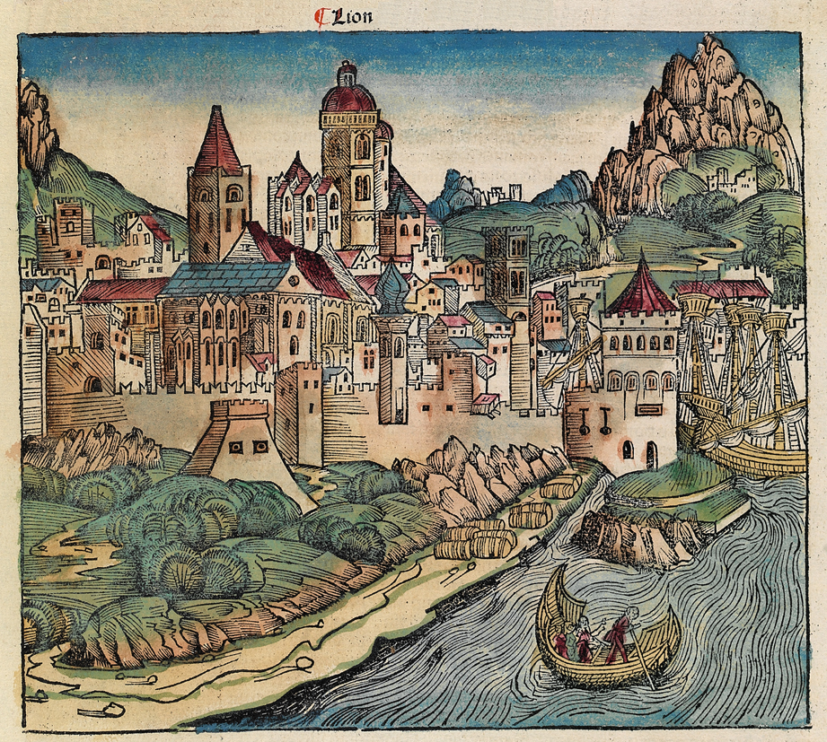 This is a part of a scan of an historical document: Title: Schedelsche Weltchronik or Nuremberg Chronicle